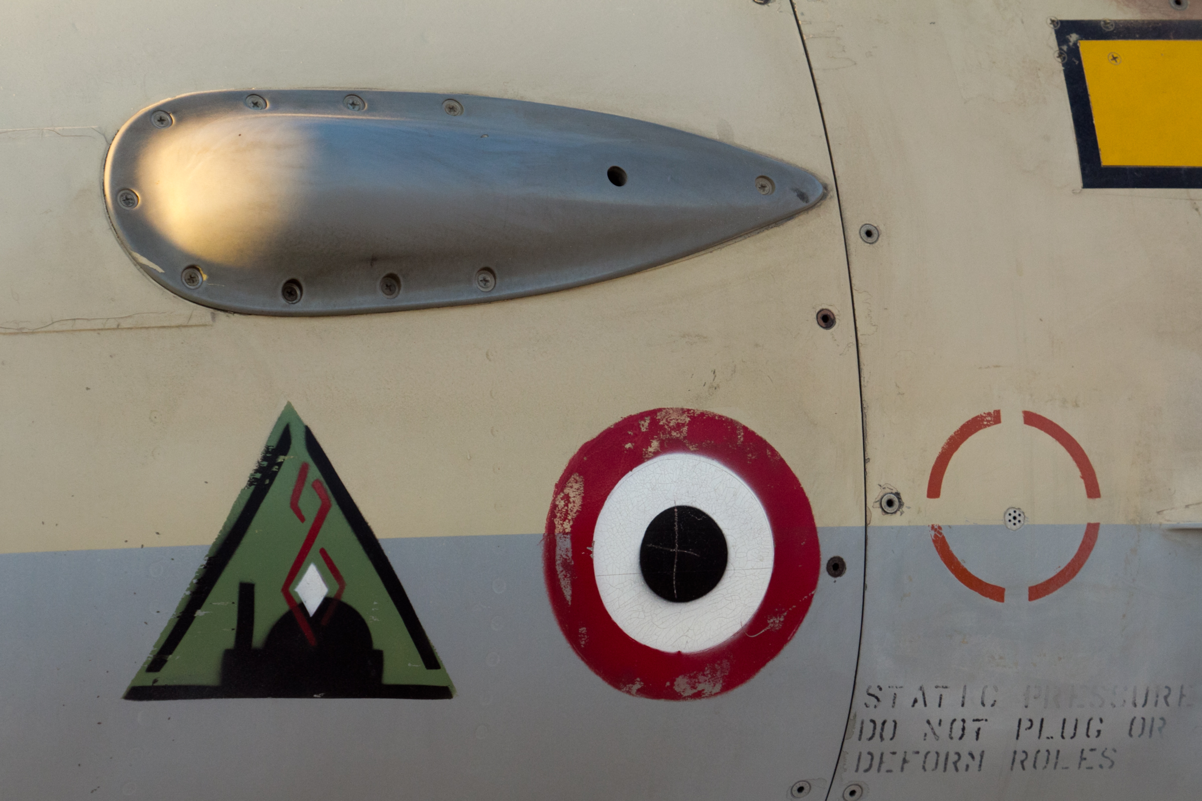 Israeli Air Force F-16A 253 bearing Syrian victory and Operation Opera mission markings. Note: The triangle symbol is a modification of that seen in File:IQAF Symbol.svg.